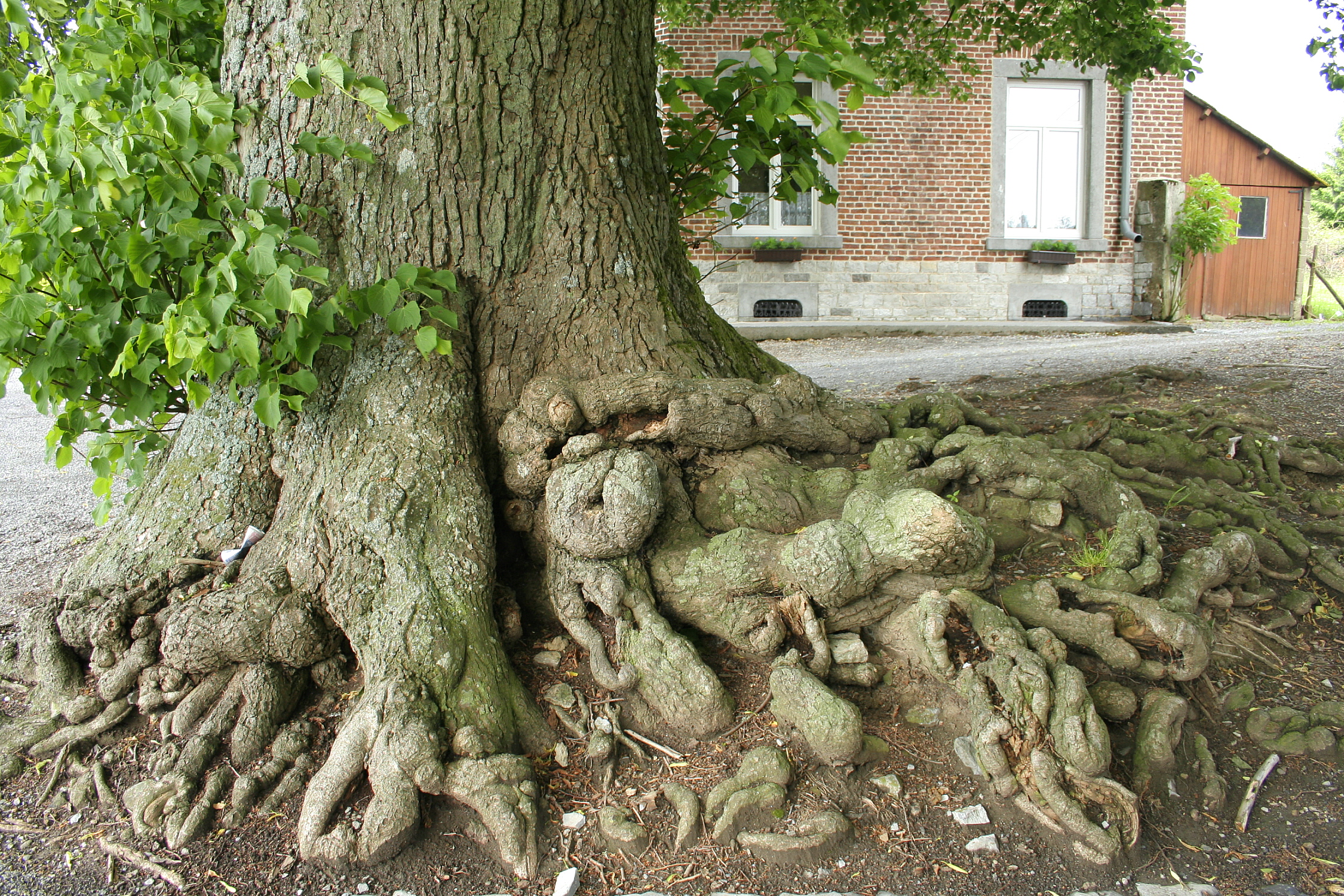 Large-leaved Lime or Large Linden roots